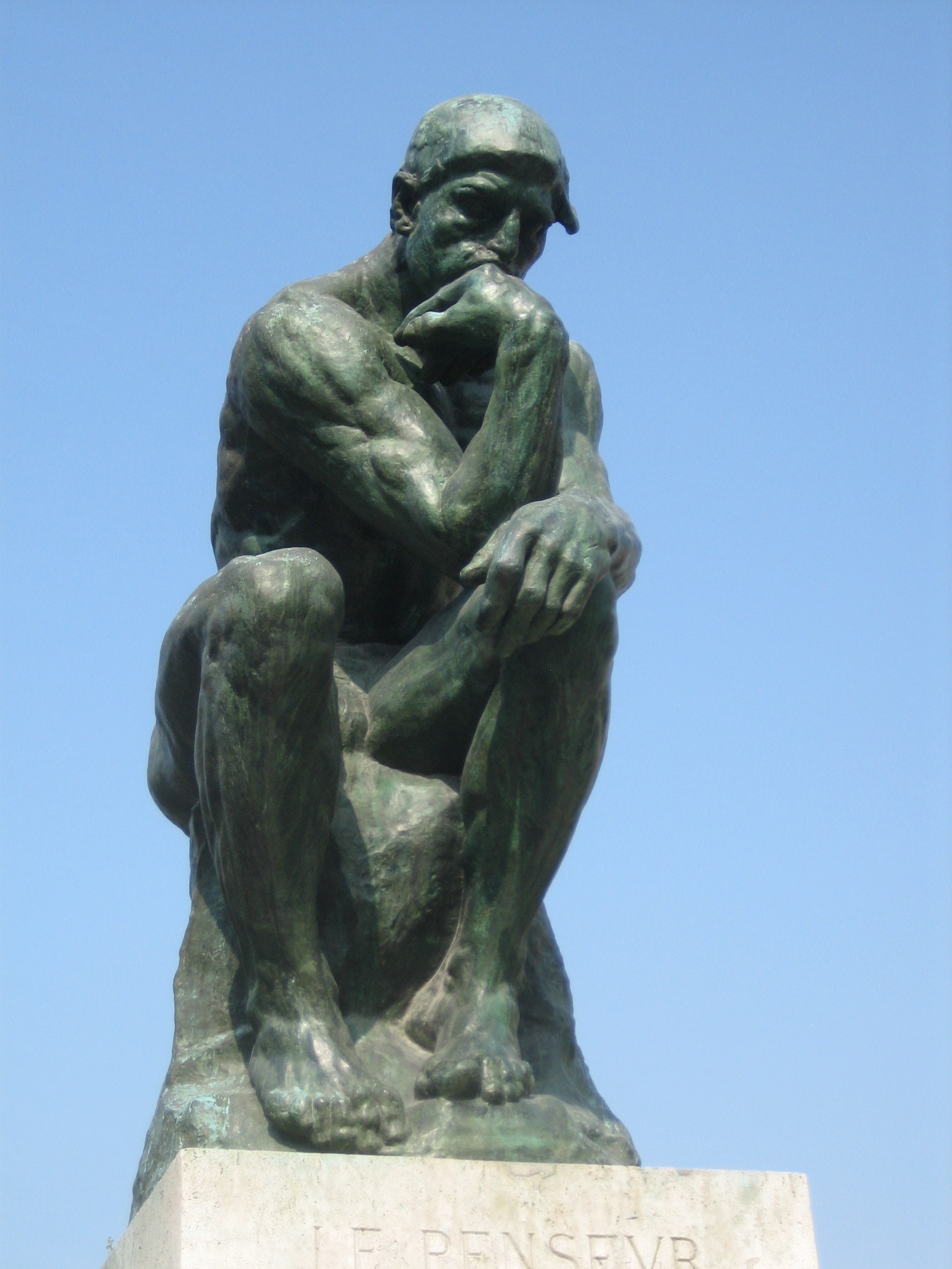 Auguste Rodin's 'Le Penseur' at the Musée Rodin in the Quartier des Invalides, 7th arrondissement of Paris, Ile-de-France, France